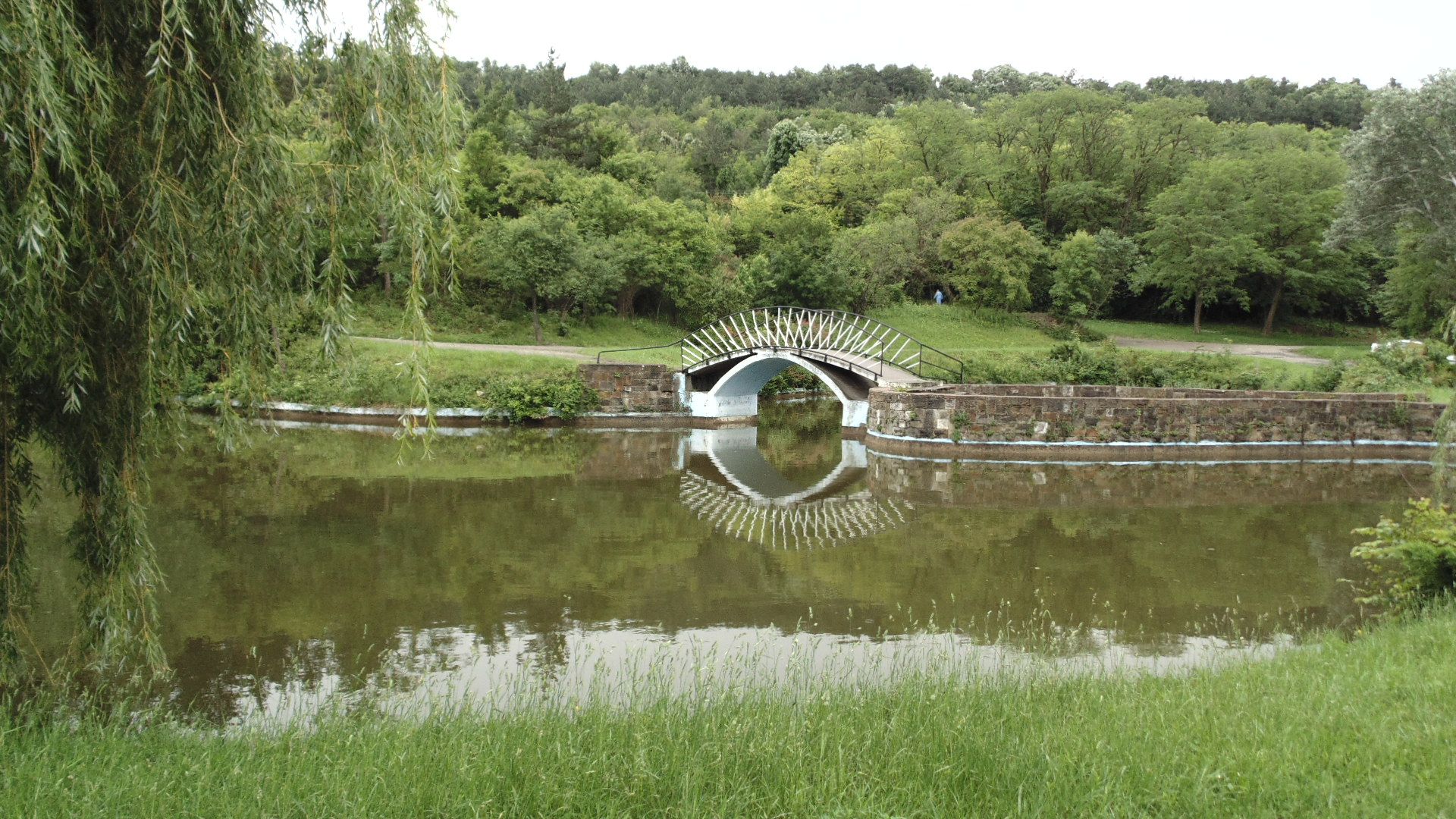 Artificial lake in park Stratesh in Lovech